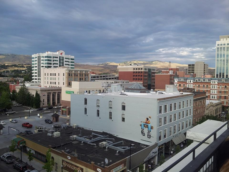 A view from the penthouse of the completely renovated Owyhee Hotel in early July 2014; the Boise Hills and public art on the Alaska Building are prominently featured.